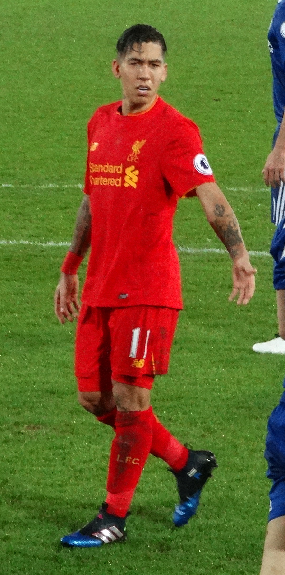 Roberto Firmino playing for Liverpool in 2017